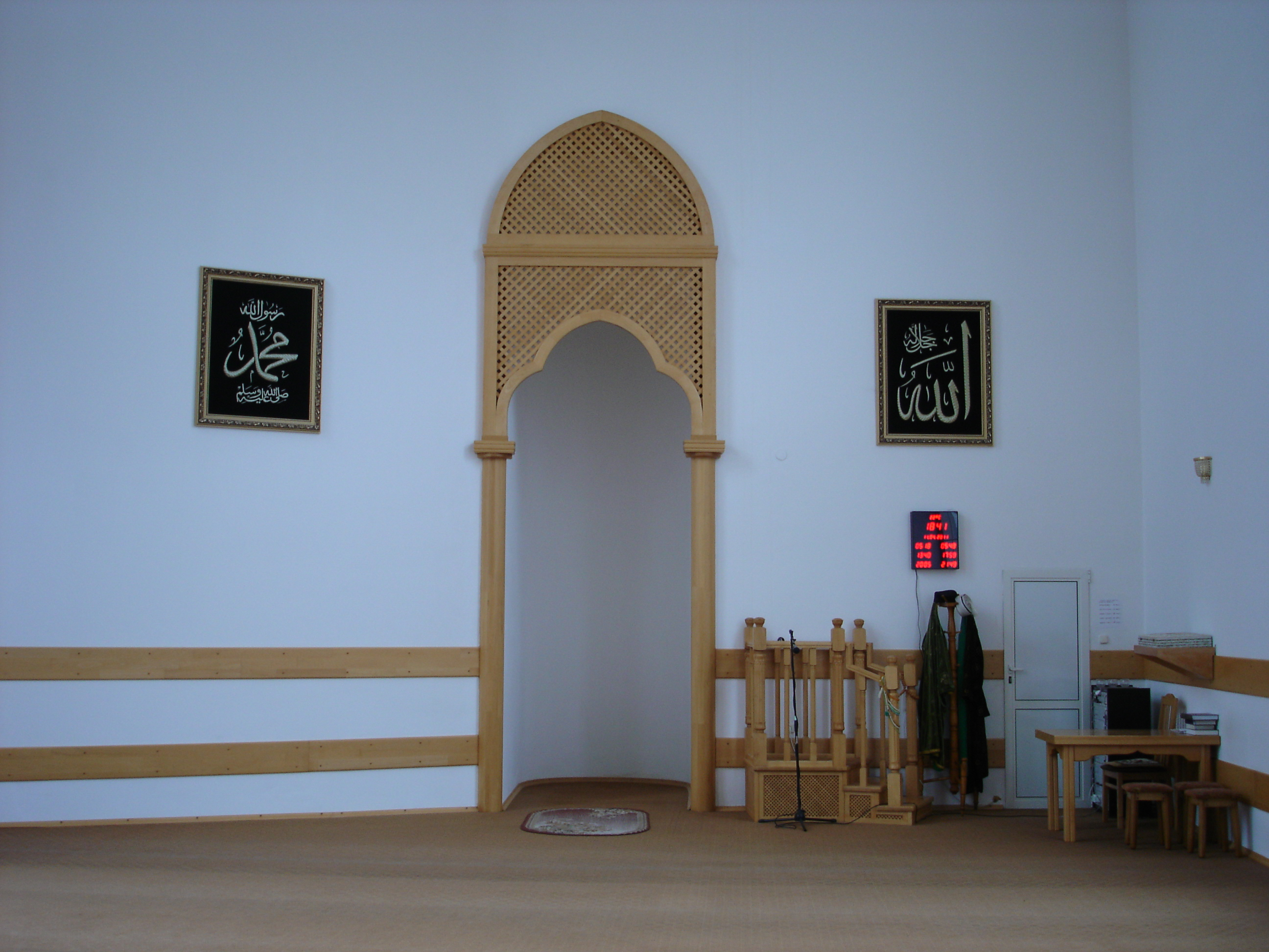 Inside mosque Karachayevsk, Karachay-Cherkessia